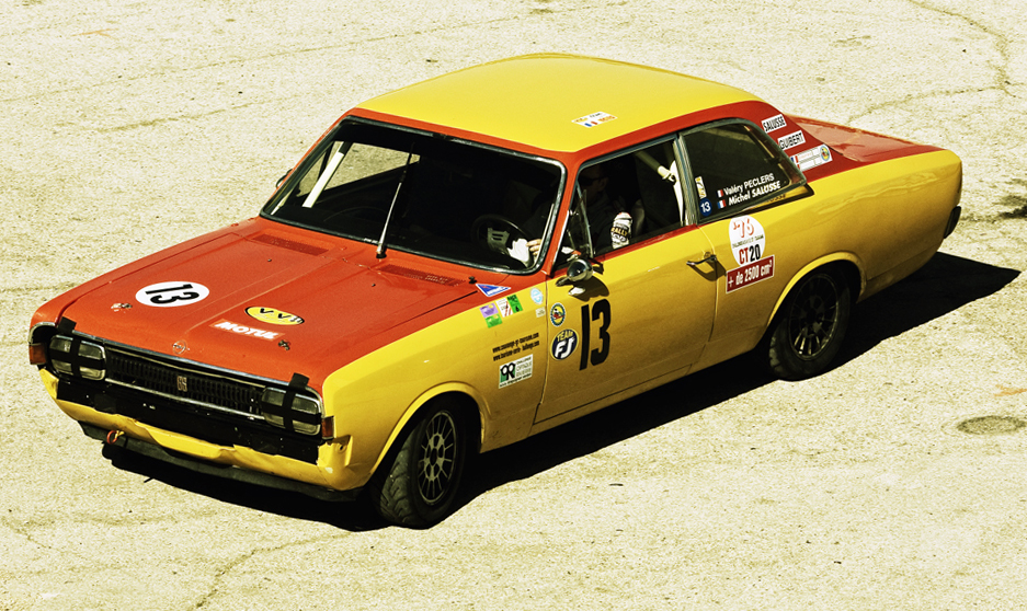 Opel Commodore GS Steinmetz